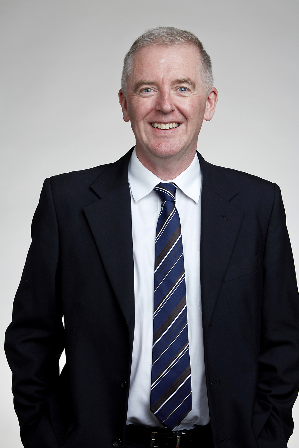 Ian Alexander Graham FRS is a Professor of Biochemical Genetics in the Centre for Novel Agricultural Products (CNAP) at the University of York where he is also Head of the Department of Biology. Attribution: The Royal Society